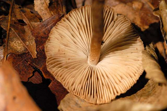 Inocybe asterospora from Commanster, Belgian High Ardennes .